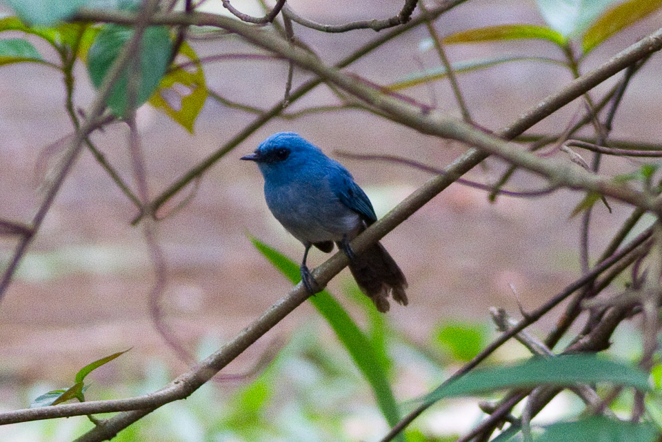 An African Blue Flycatcher in Southwest Region, Cameroon.